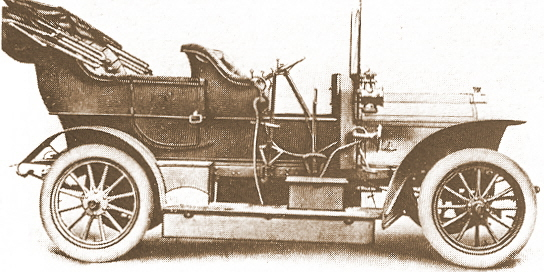 1907 Horbick